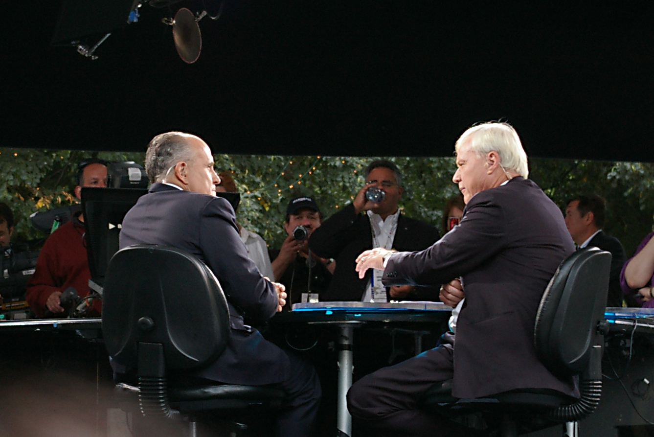 Giuliani being interviewed by Chris Matthews at the MSNBC tent in Rice Park. I titled this fathead because I hold a special disdain for Rudy. He's kind of d-bag number one, in my opinion. Although, my barber told me a week after the convention that Chris Matthews is also a bit of a d-bag... when they wouldn't take the NBC corporate card (I'm assuming it was AMEX), he started swearing and griping about having to pay twenty dollars for a haircut.